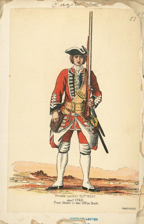 British soldier I half of 18th. C